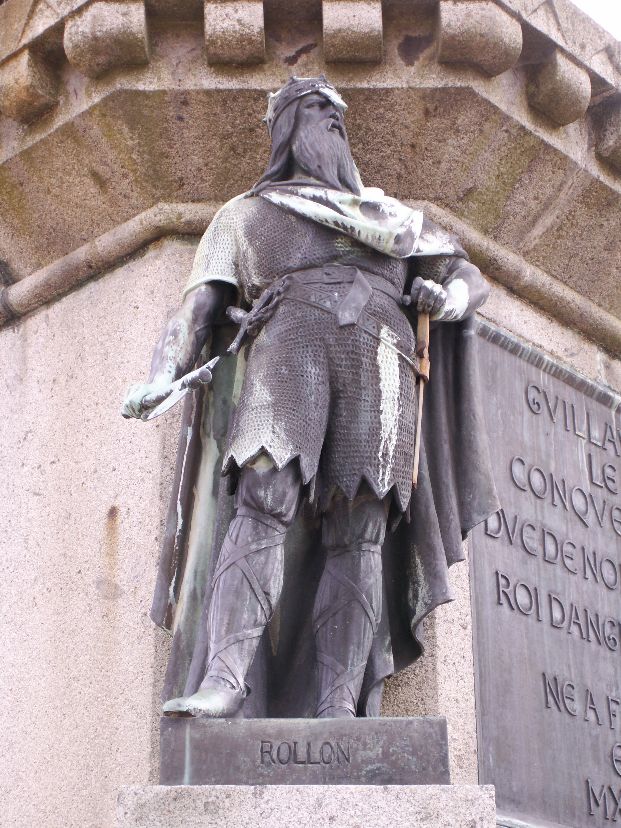 Photo of Rollon statue depicted among the 6 dukes of Normandy in the town square of Falaise